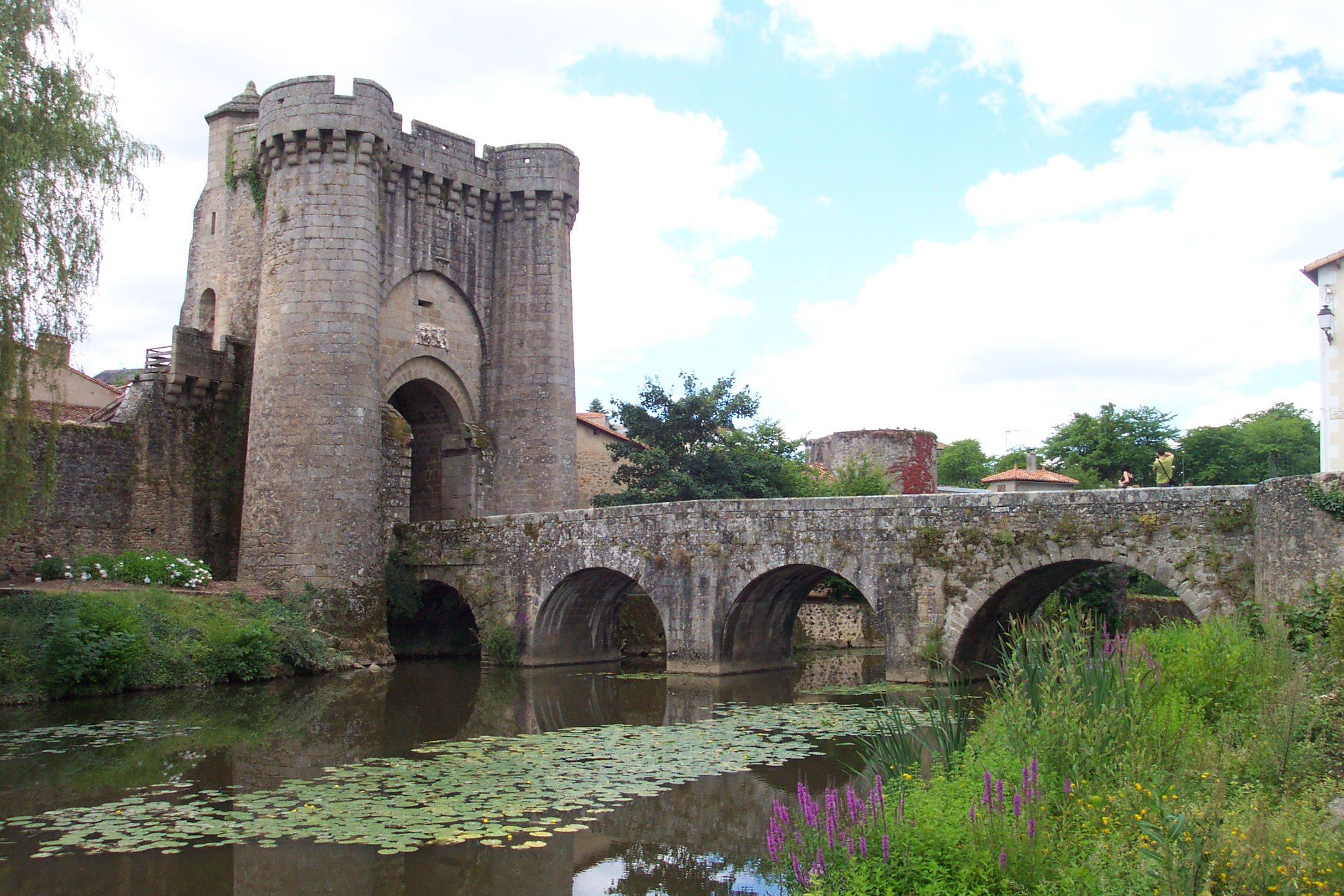 The Saint-Jacques Gate in Parthenay, photographed from outside the city walls. The River Thouet flows in front of the gate, crossed by the Pont Saint-Jacques. For more information, see the Wikipedia article Parthenay.